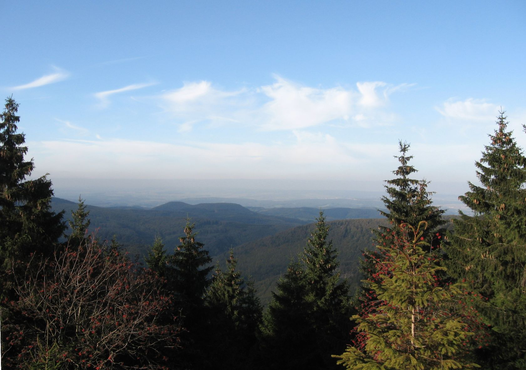 Thuringian Forest: View to north